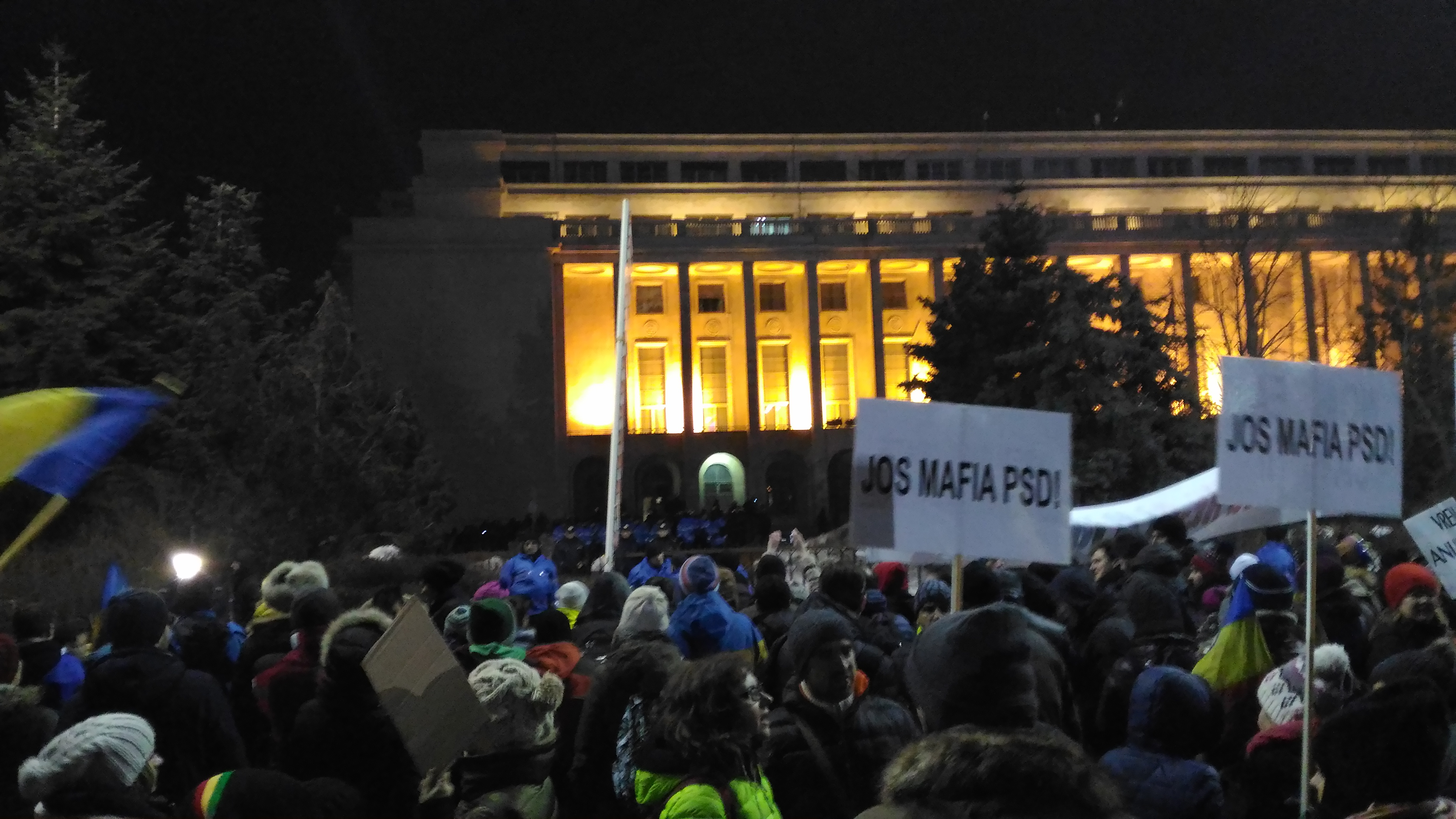 Protesters in front of the Government, Victoriei Place, Bucharest (photo taken on 2nd February 2017). The two banners contain the message: "Down with the PSD (Party) Mafia."